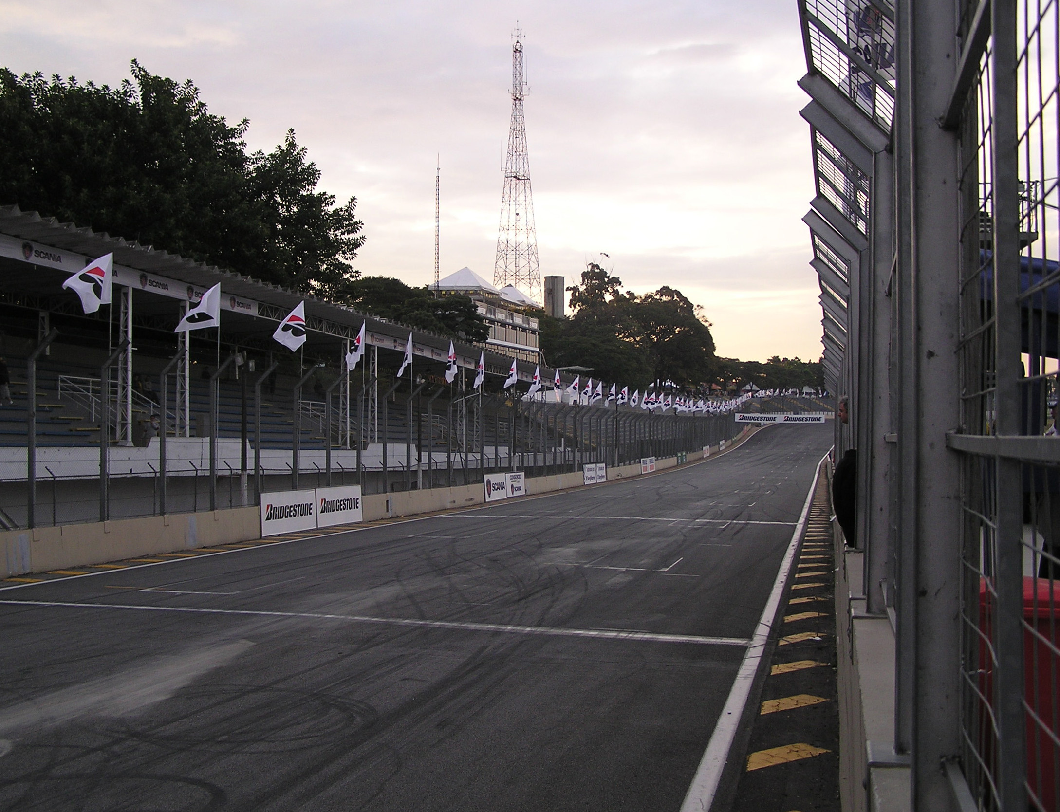 Autódromo José Carlos Pace: Main straight. Start line and finish line are separated.